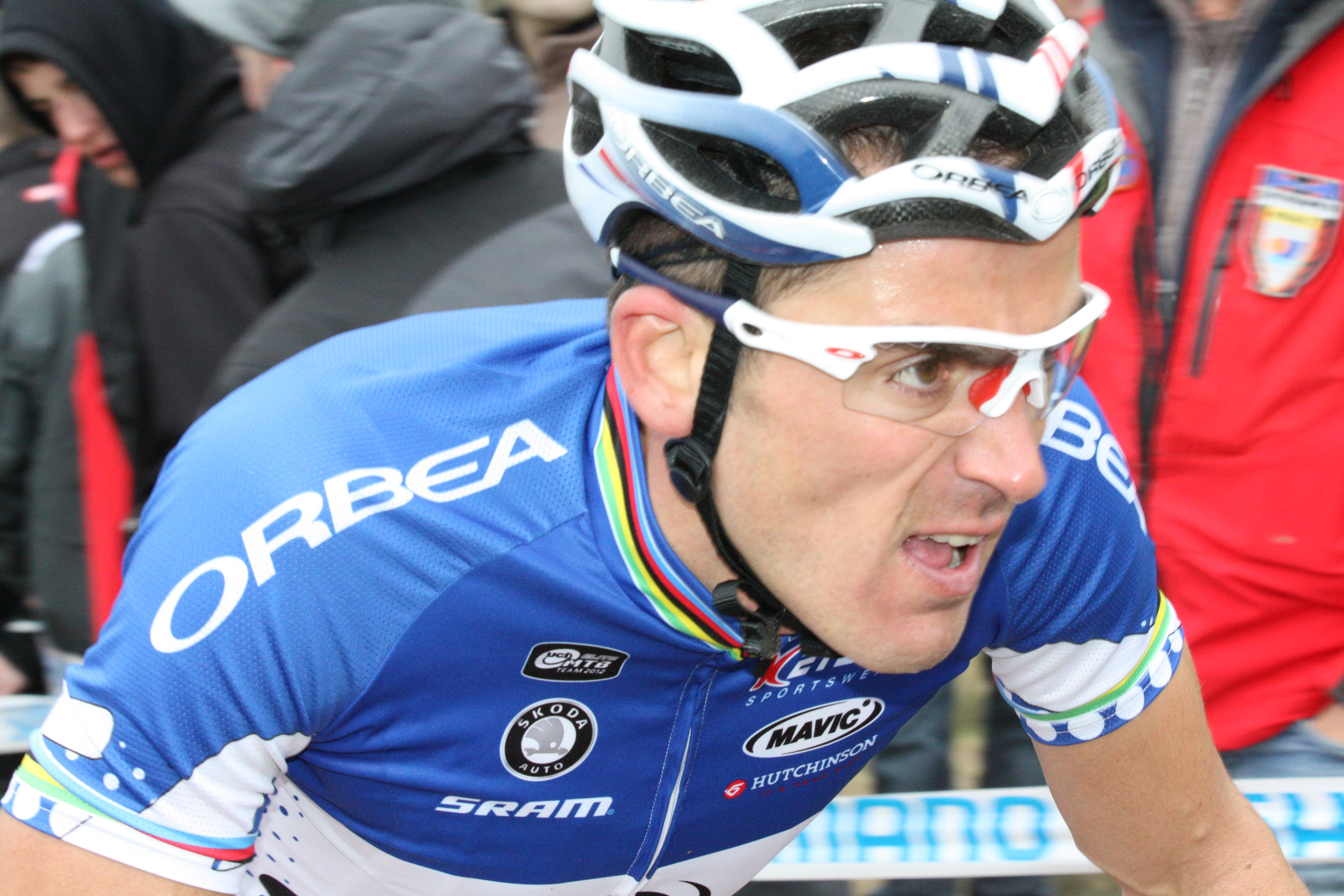 Julien Absalon in Houffalize (Belgium) 15.04.2012